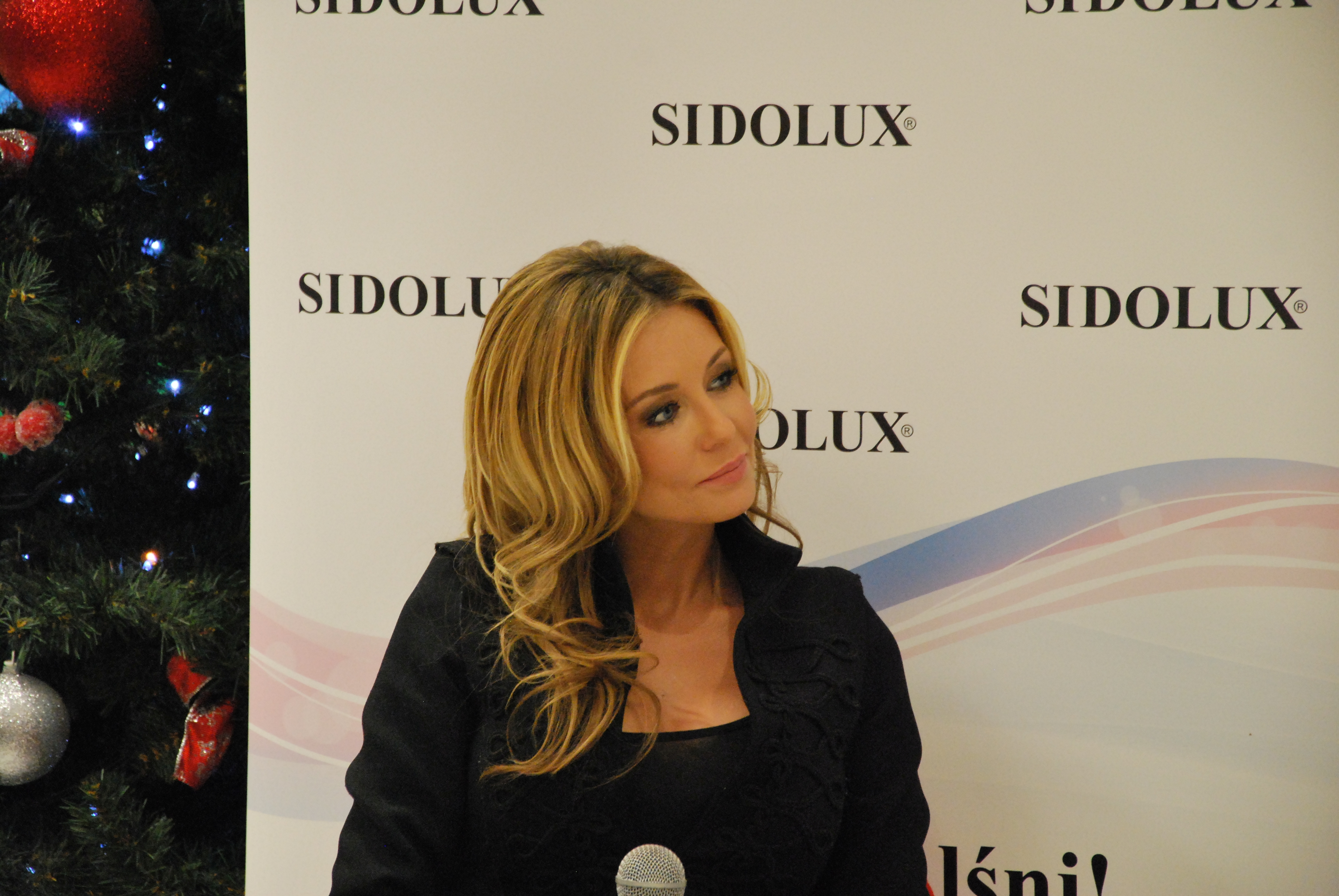 Małgorzata Rozenek, Łódź December 2014